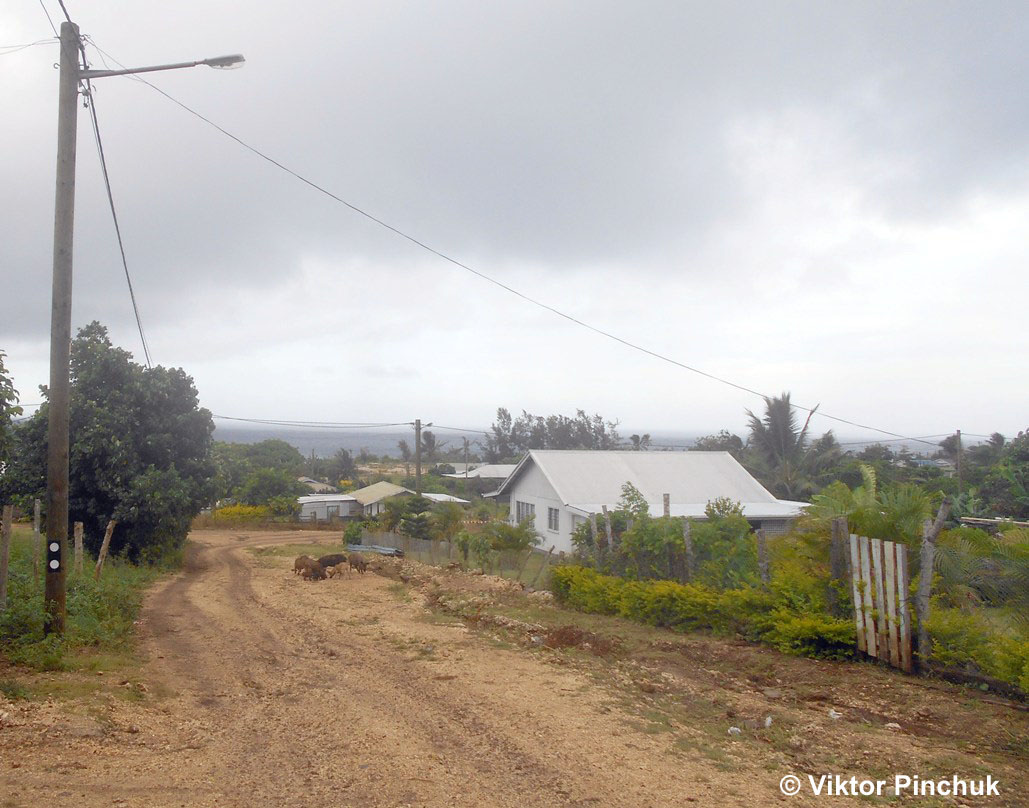 Tonga